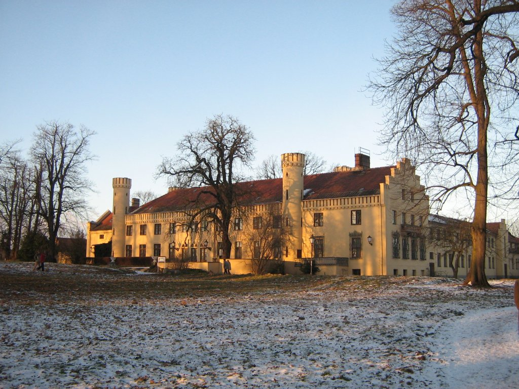 Petzow Castle in Petzow, Werder (Havel) in Brandenburg, Germany